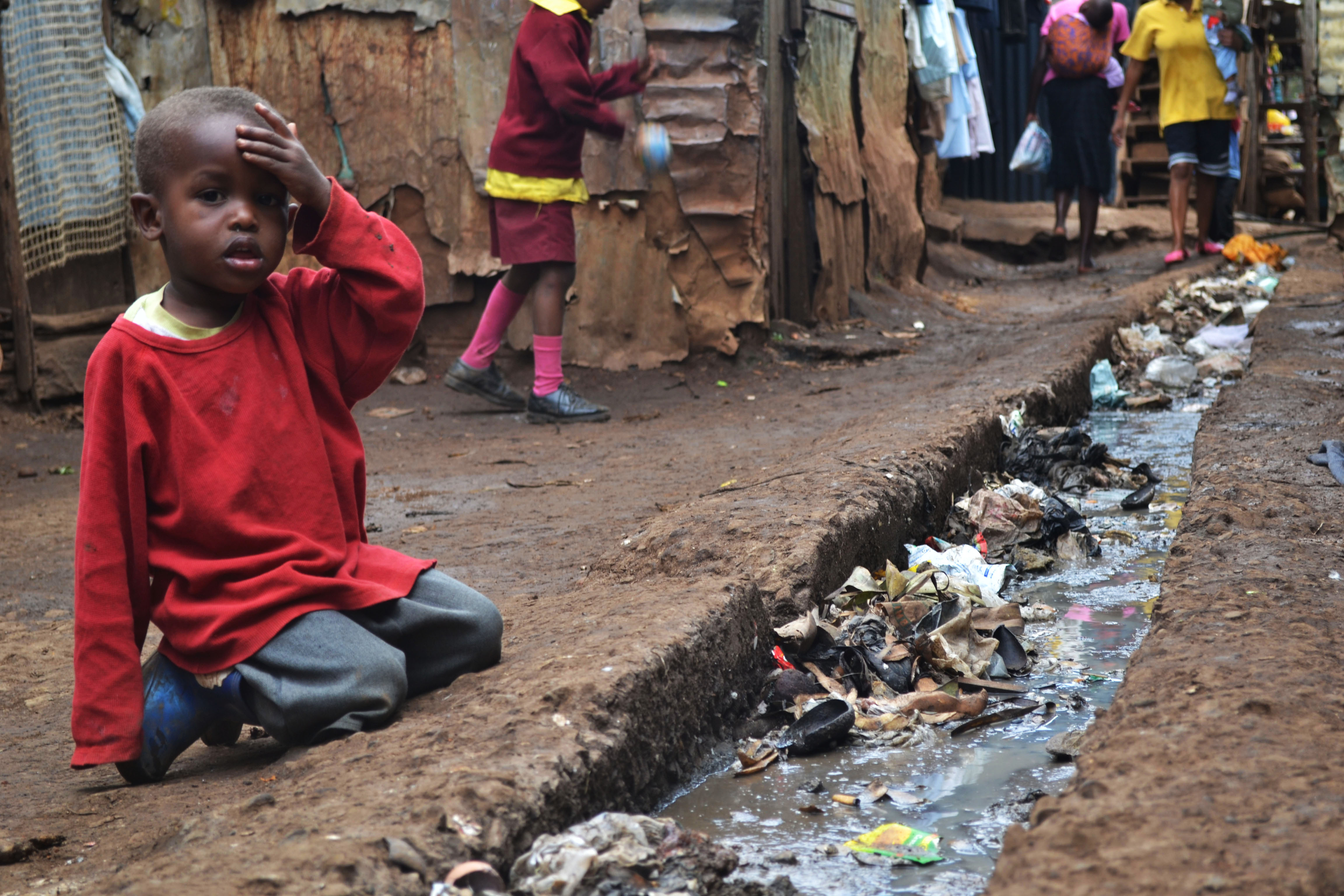 A young boy sits over an open sewer in the Kibera slum, Nairobi. With up to one million residents, Kibera is Africa's largest slum and was the focal point for much of the post-election violence of 2007. Photo: Eoghan Rice / Trócaire